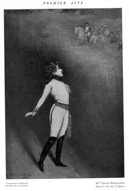 in male clothes